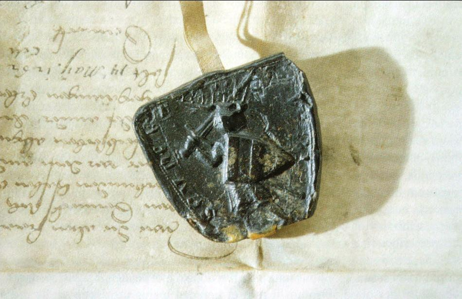 Seal of Ulrich II. of Sanneck on the contract between Ulrick II. of Sanneck (or Lemberg) and his brother or uncle Liutpold III. od Sanneck. In 14. Lemberg (number. 31).